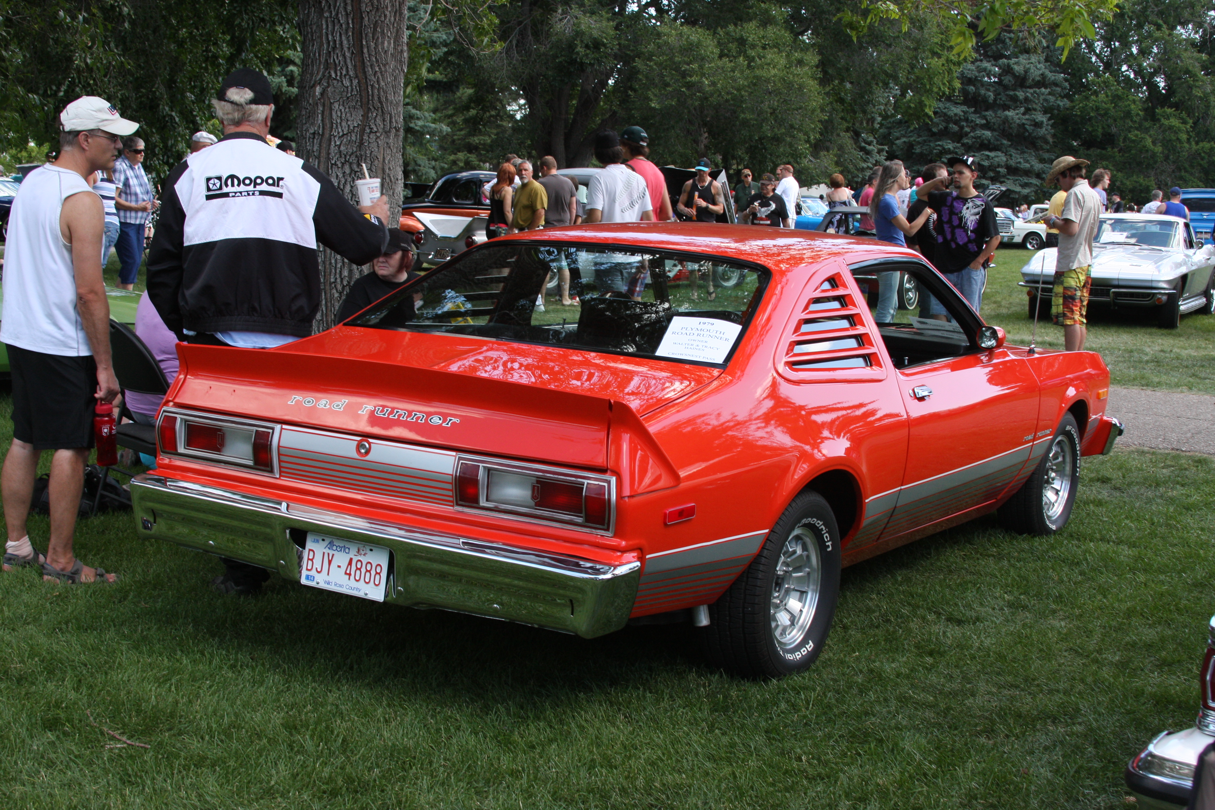 Plymouth Roadrunner